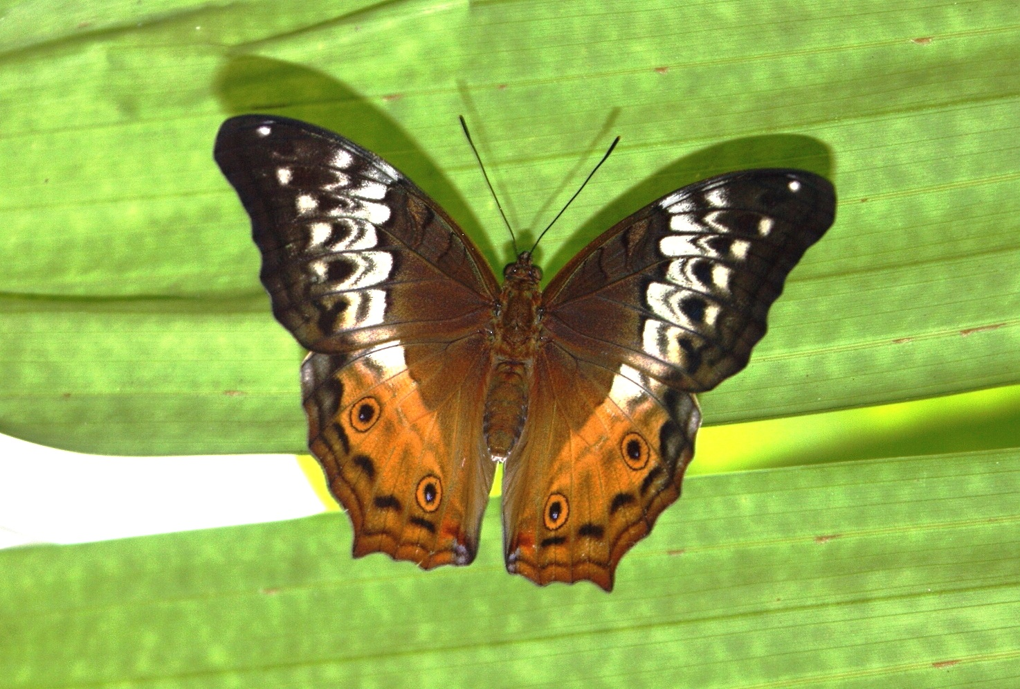 Butterfly from Queensland Rain Forest aréa Nymphalidaé family, Héliconinaé Spécie présent in south East Asia, with 15 subspecie from Indonésia East Part, Irian Jaya, Papua and Western Océania This spécie is présent in North Australia, Queensland, Cape York and island between PNG and Australia; Moa, etc Discover and named by Butler 1874 Common Name The Cruiser this female form